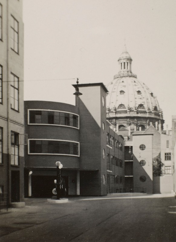 The multi-storey parking facility Palægaragerne at Dronningens Tværgade 4 in Copenhagen, Denmark. The original building from 1932 which was later expanded with two additional floors in 1934.1932